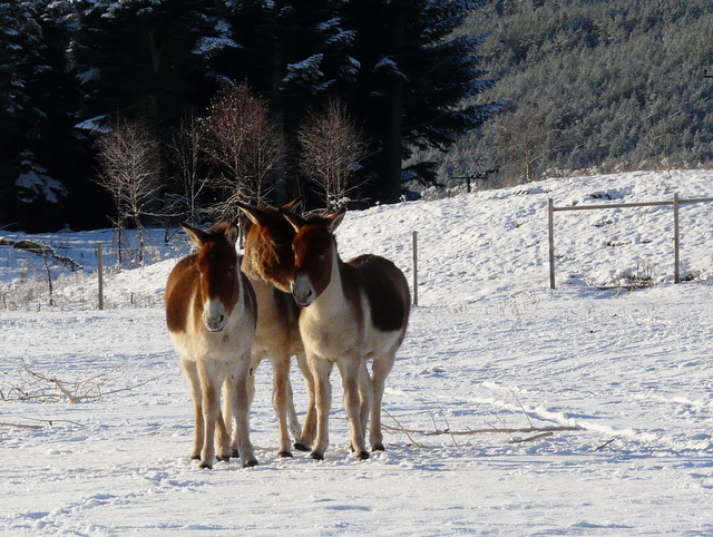 Kiang (Tibetan wild asses) at Highland Wildlife Park